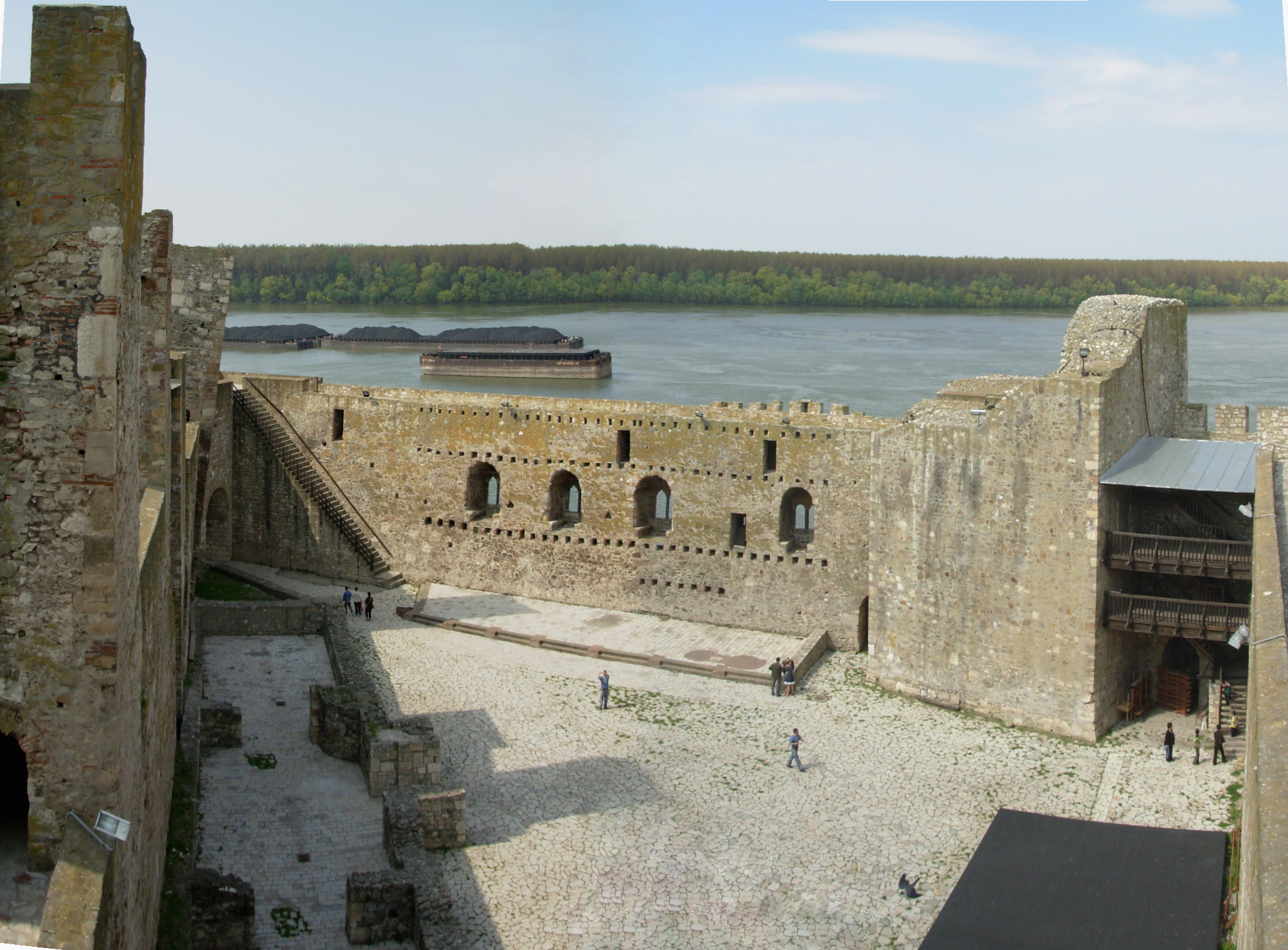 Panoramic photo of small town Smederevo Fortress. (Photos taken from the southeast corner tower)